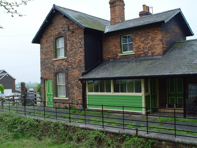 Whitedale Railway Station, east of Rise, East Riding of Yorkshire, England.As seen on the Hull to Hornsea Rail Trail. Traffic on the road to Lambwath Bridge can also be seen in the photograph. This station is 500 metres west of Whitedale Farm.